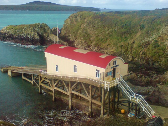 St David's Lifeboat Station at St Justinians Situated in a sheltered cove with views over to Ramsey Island. The sea was a breathtaking shade of turquoise despite the overcast sky and was reminiscent of tropical waters rather than the usual slate grey at this time of year. Stunning!